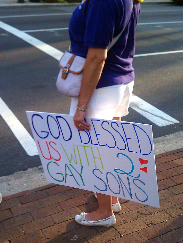 "God blessed us with two gay sons." A macho man and his suburban wife were walking along the street toward Farragut West Metro station. No one around them. And then, I noticed their sign... This fierce, tough-looking man and his wife loved their sons. And showed it. And were not embarrassed to do so. At the Capital Pride parade near Dupont Circle in Washington, D.C., in the United States on June 9, 2012.